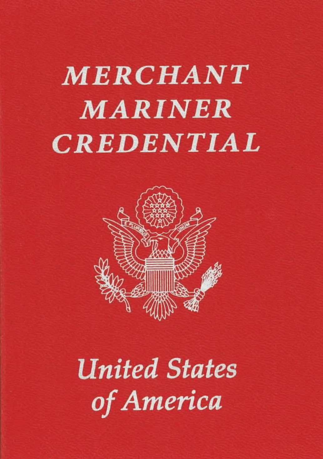 Scan of cover of a Merchant Mariner Credential issued by the United States Coast Guard.